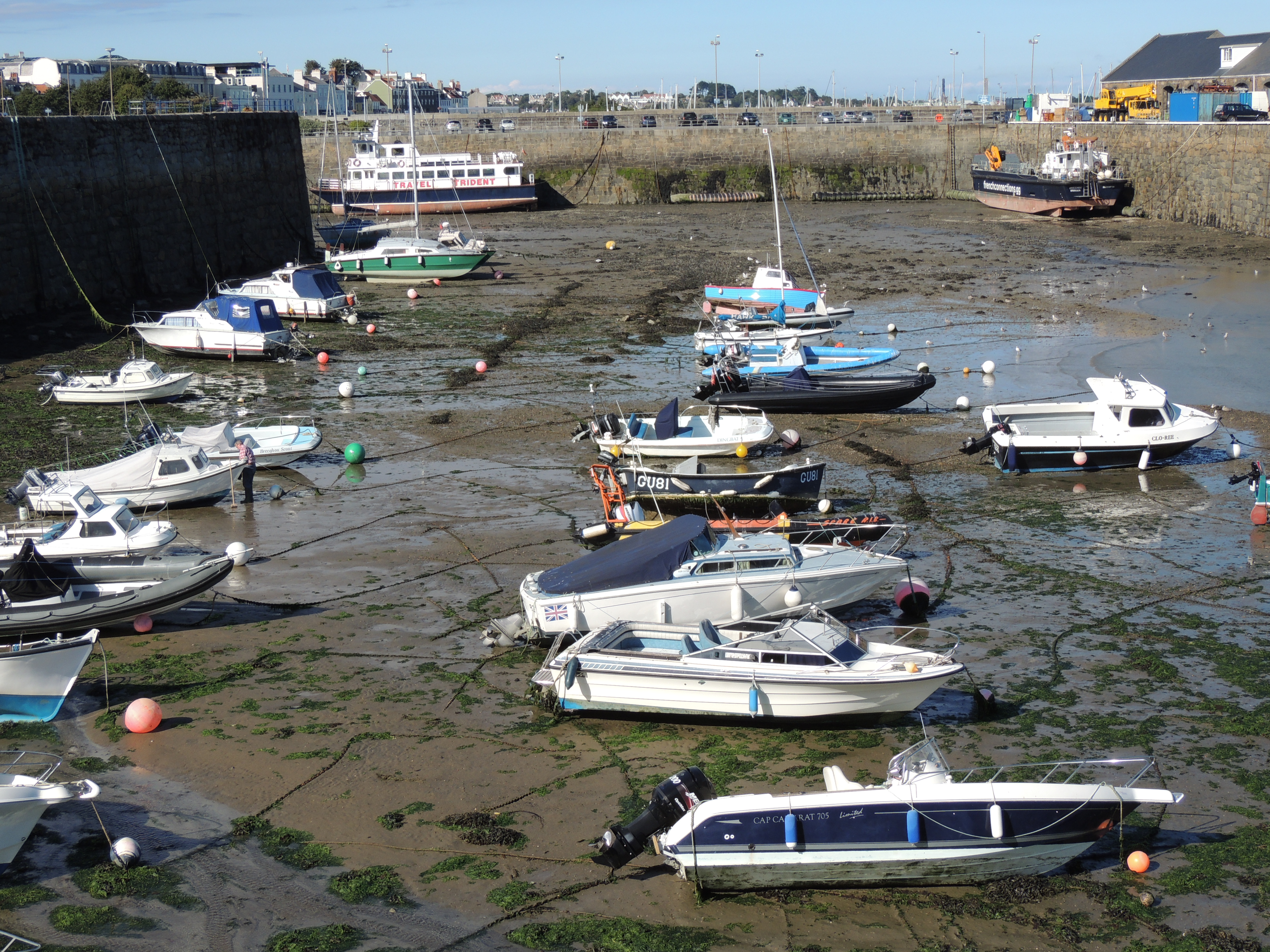 Harbour of St. Peter Port at Low Tide